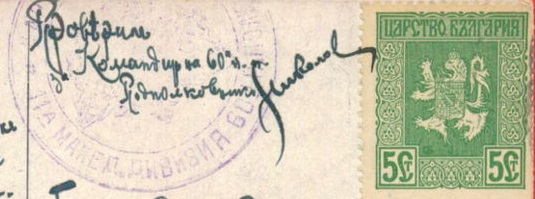 11th Division 60th Regiment's Seal